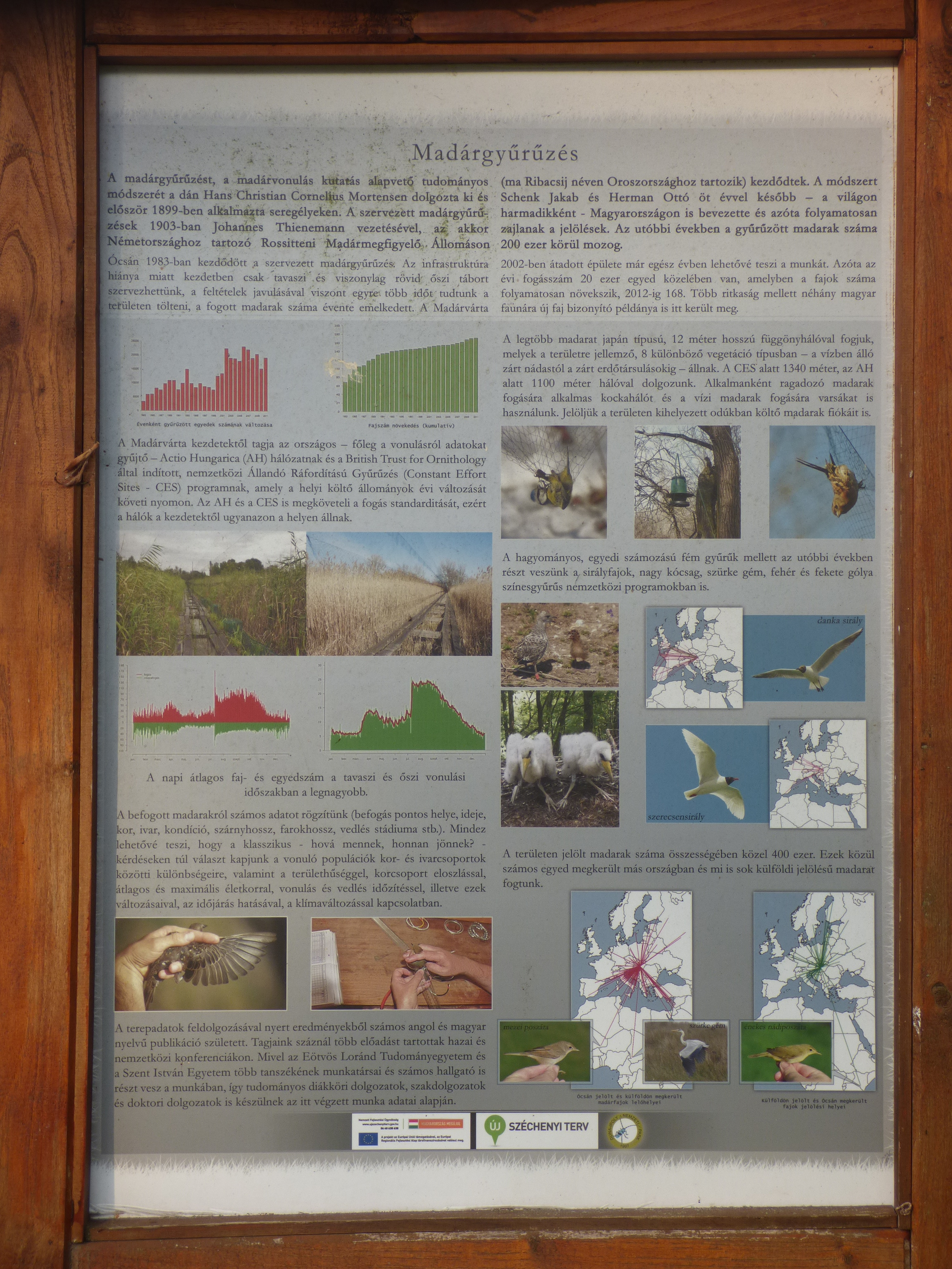 A gyűrűzés lényegét ismertető tábla az Ócsai Madárvártán